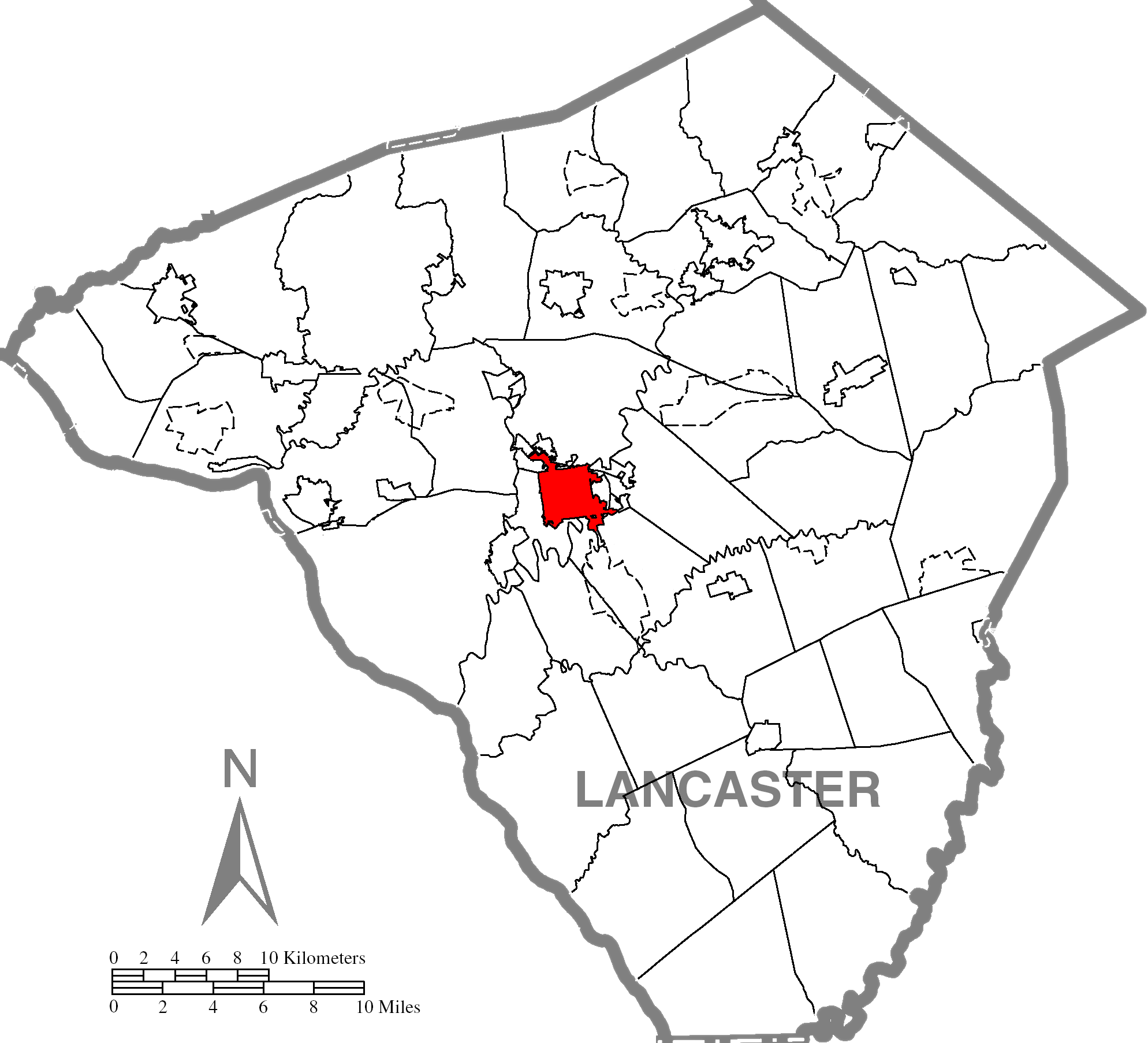 Highlighted Lancaster County map of Lancaster.